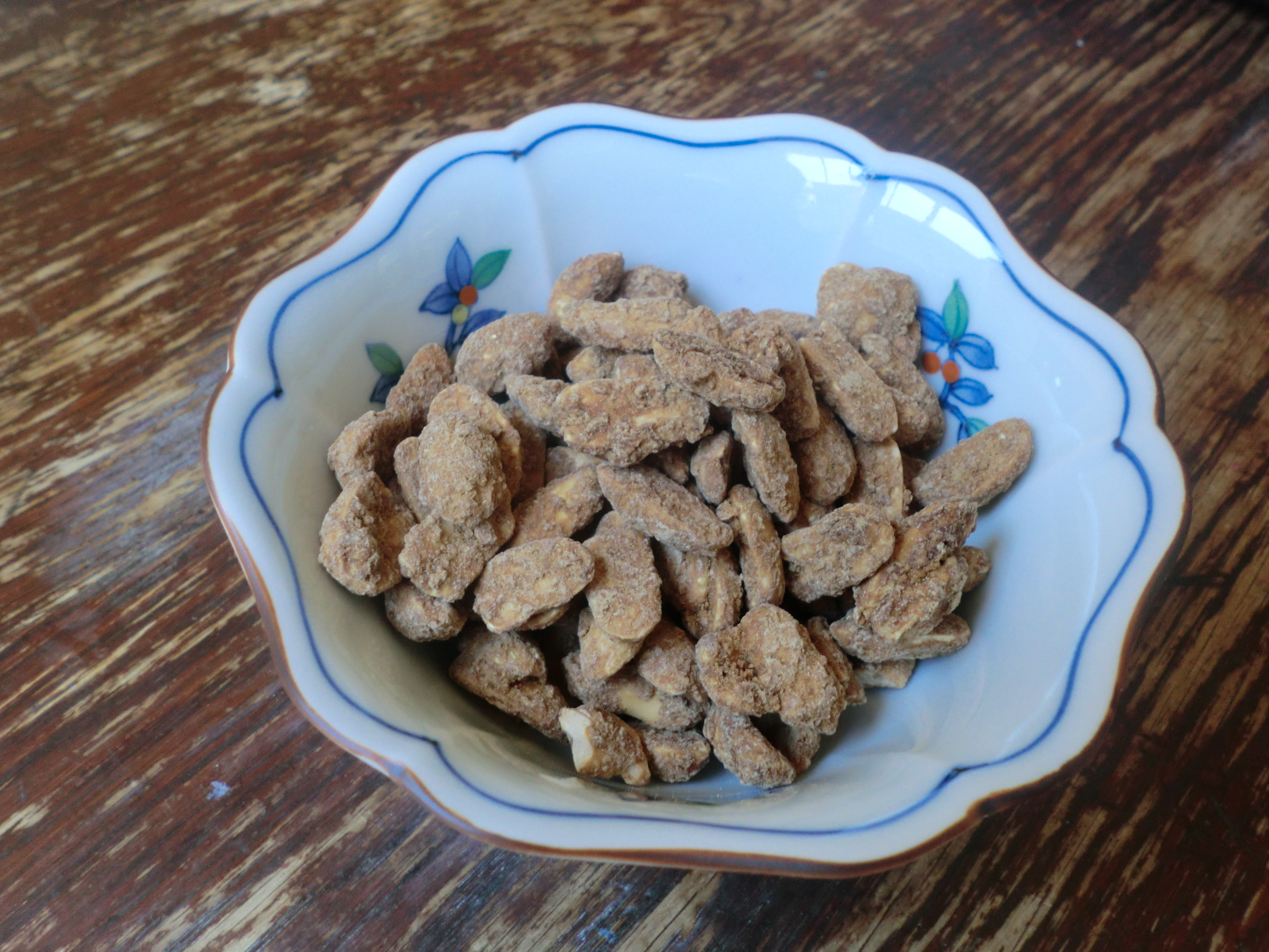 Gajamame(sugar coted peanut), confectionery of Amami island.